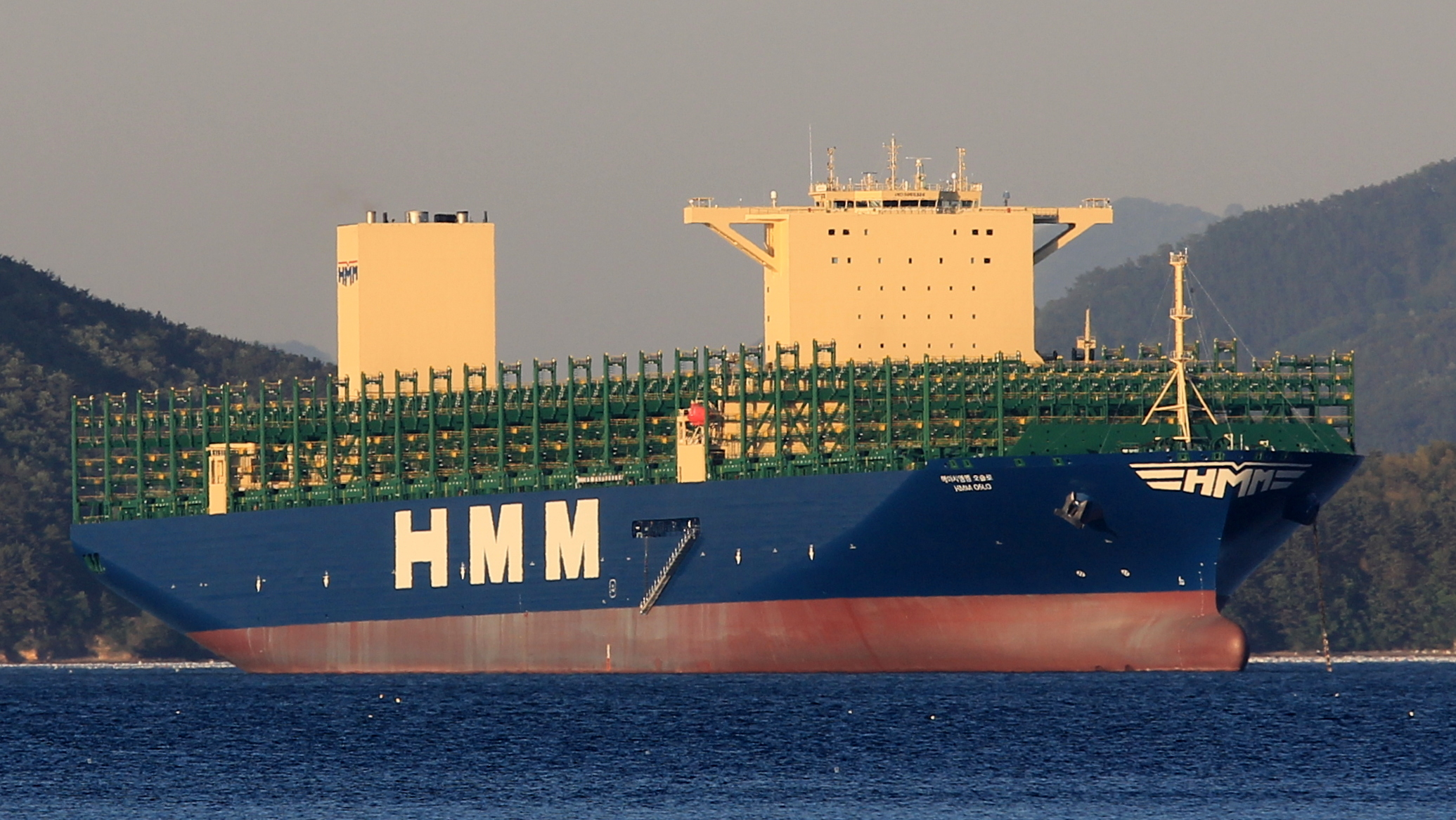 HMM Oslo anchored off Samsung shipyard on Geoje Island, South Korea.